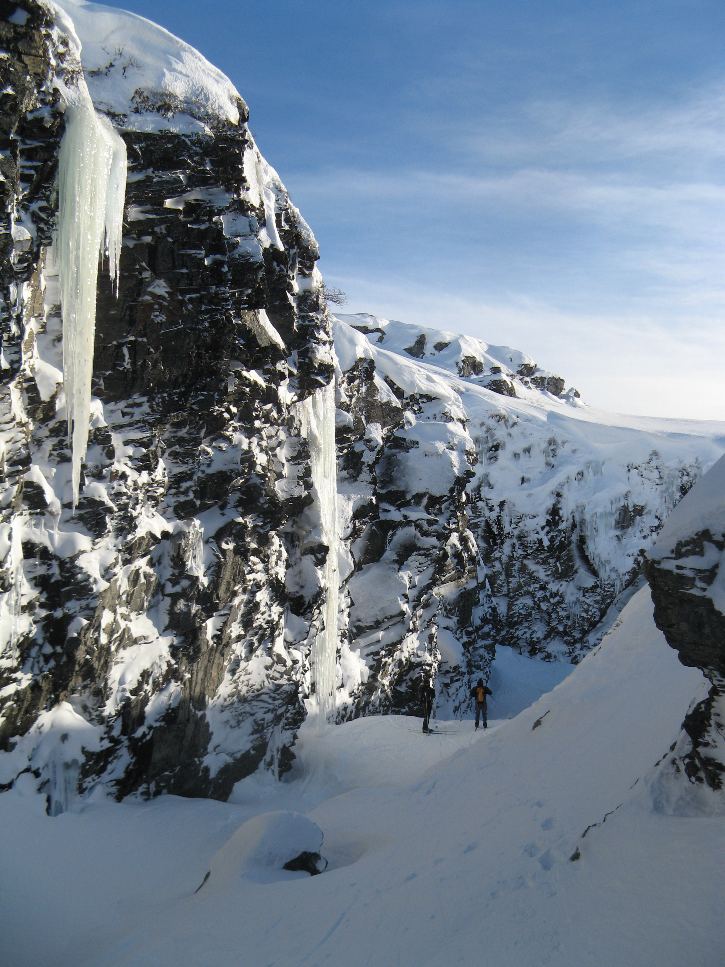 Pihtsusköngäs canyon in Enontekiö, Finland, in winter 2010